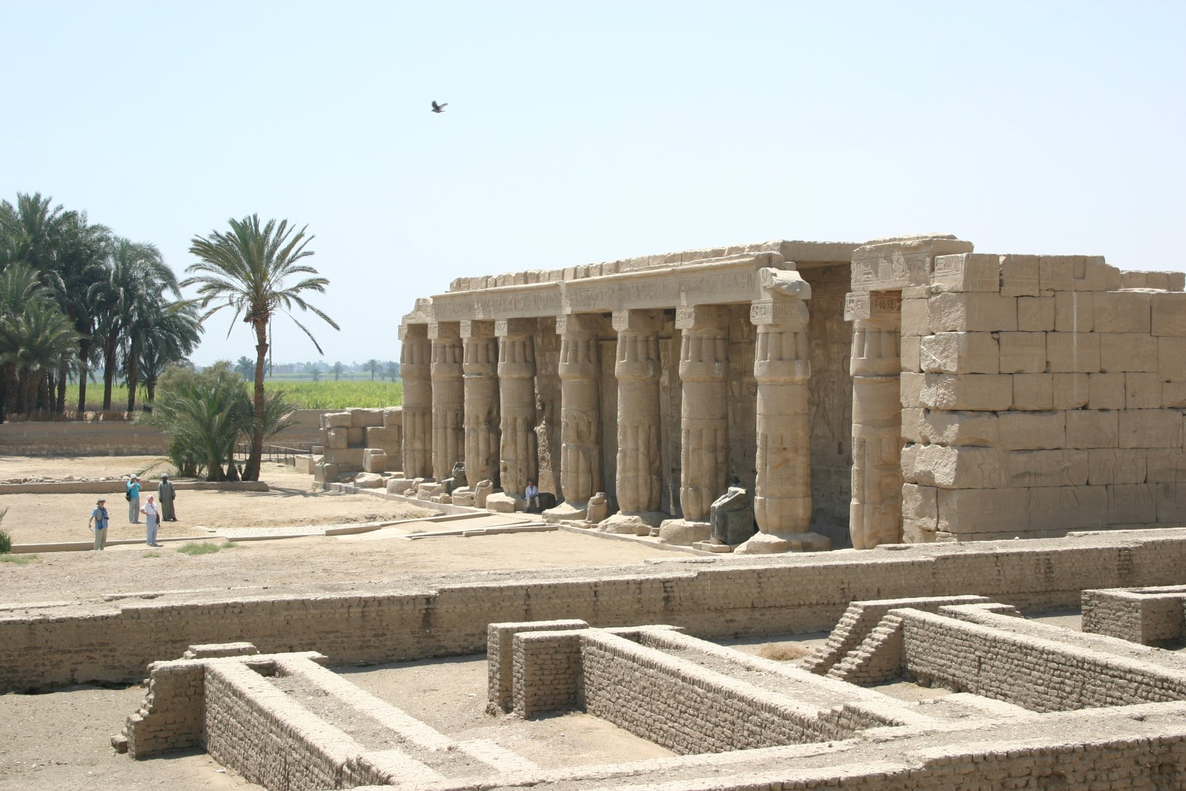 Mortuary temple of Seti I at Qurna, Luxor, Egypt, as found on Image:Seti I Temple at Qurna.jpg, created by Markh